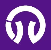 Harima Hyogo chapter